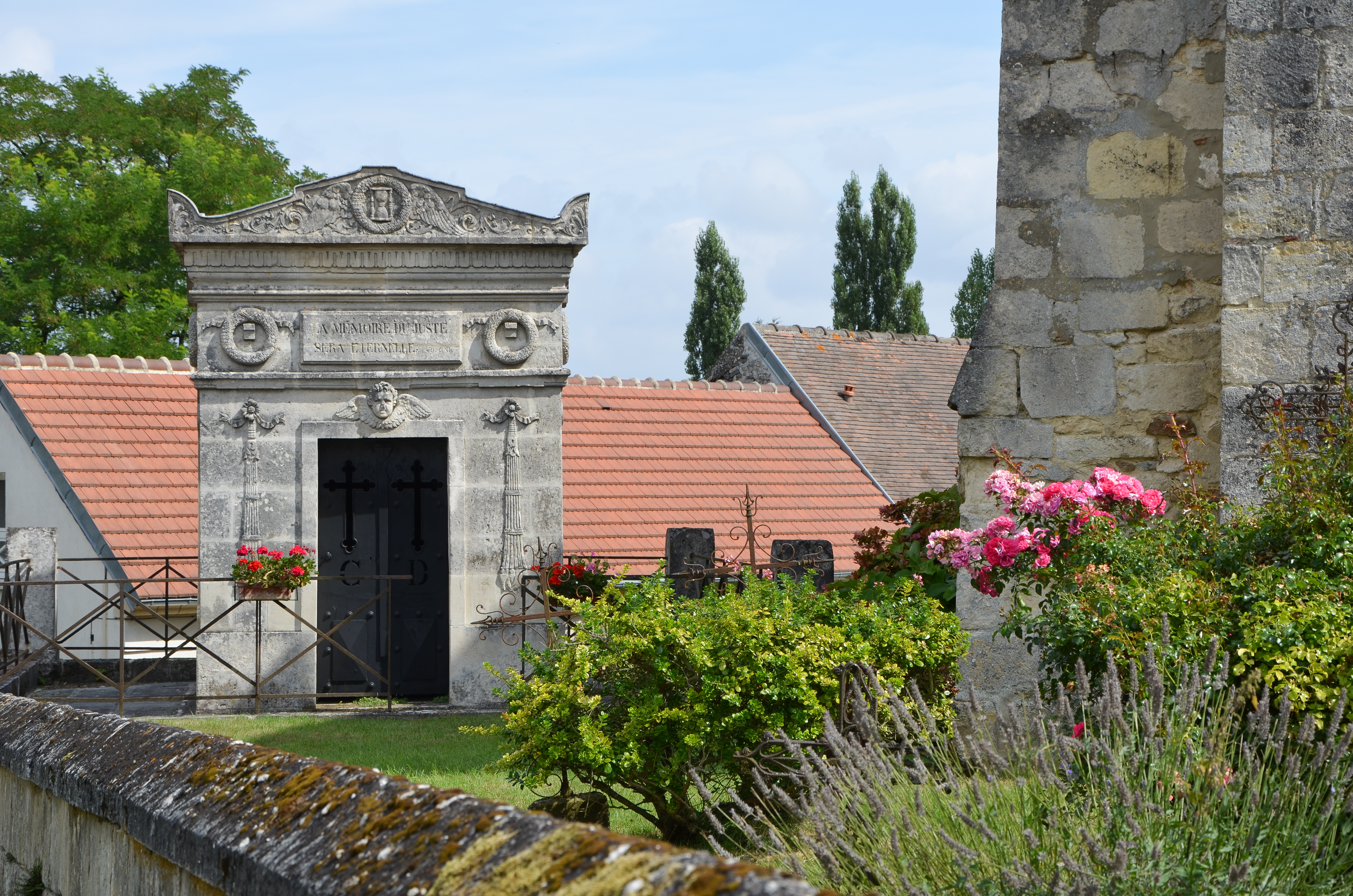 Tomb of the general Charpentier in Oigny en Valois, Aisne, Picardie, France